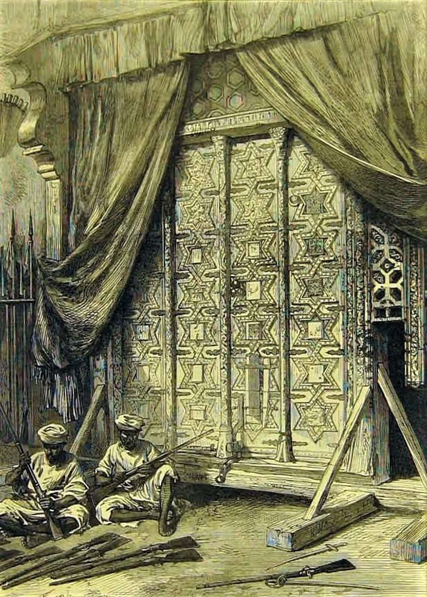 Detail of the Gates from the tomb of Mahmud of Ghazni stored in the Arsenal of Agra Fort - In 1842, the Edward Law, 1st Earl of Ellenborough issued his "Proclamation of the Gates, where he ordered the British army in Afghanistan to Ghazni and bring back to India the sandalwood gates from the tomb of Mahmud of Ghazni in Afghanistan. These were believed to have been taken by Mahmud from Somnath. There was a debate in the in 1843 at the House of Commons in 1843 on the question. After much argument between the British Government and the opposition, the gates were uprooted and brought back to India in triumph. However on arrival, they were found to be replicas of the original Somnauth Gates.They were placed in a store-room of the Asenal in Agra Fort where they still lie to the present day.